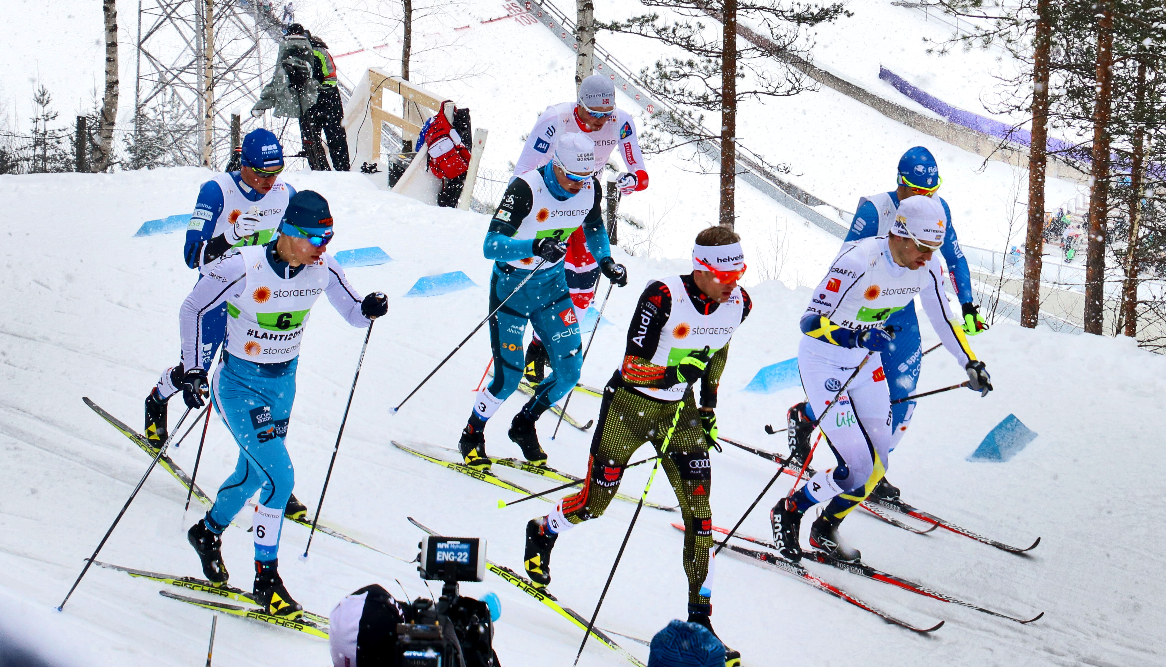 Lahti- At the cross-country world championships.